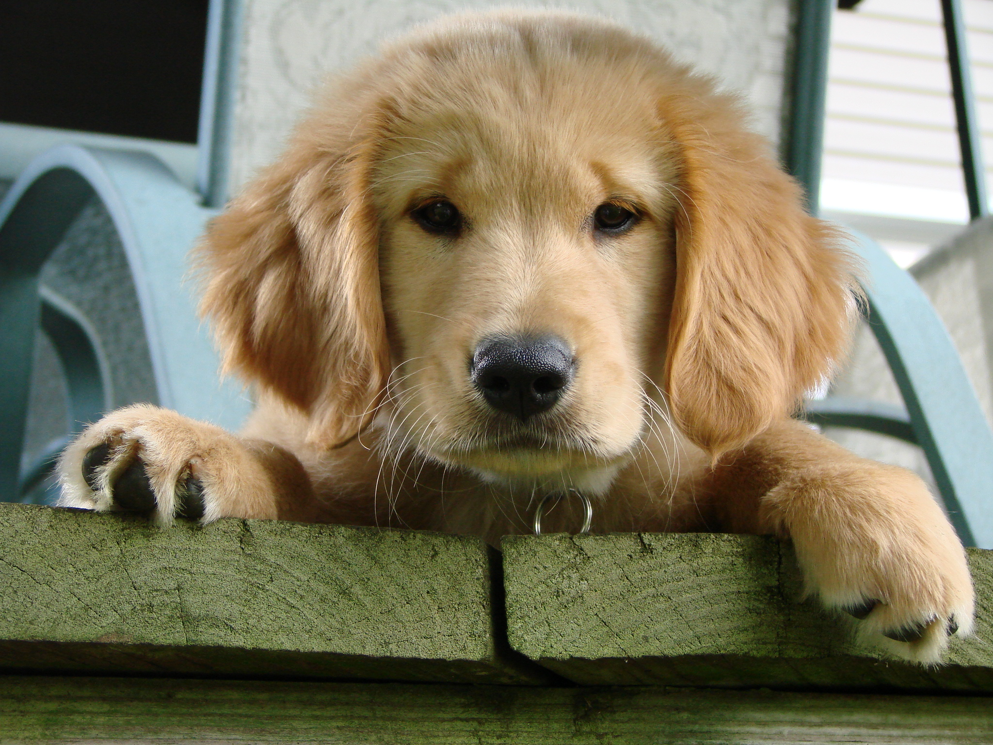 Golden Retriever dog (canis lupus familiaris), resting